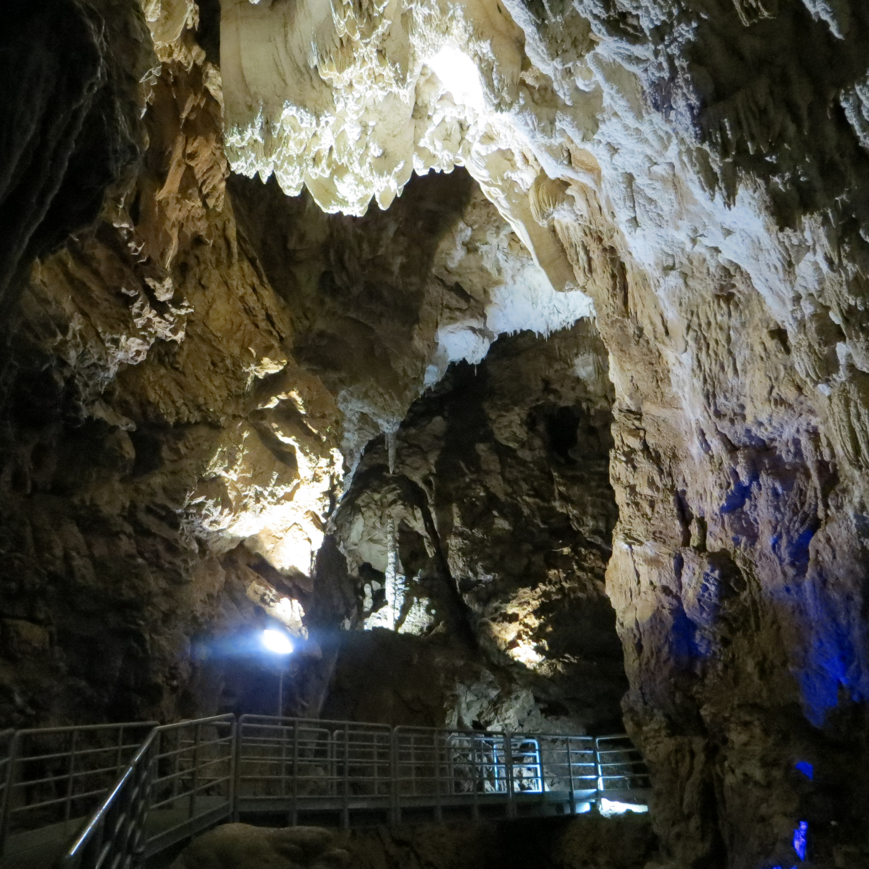 interno grotte tratto di passerella accessibile a disabili